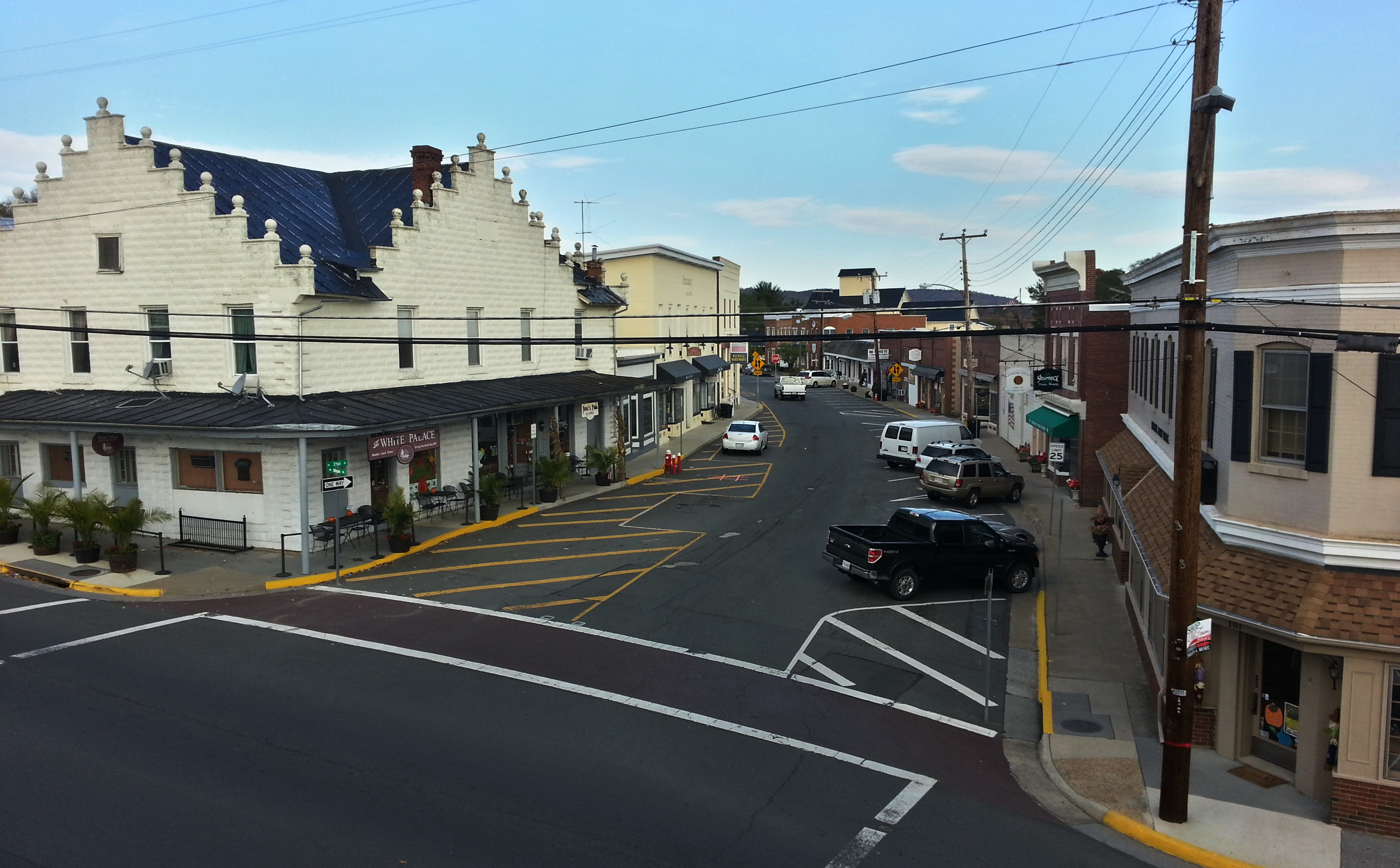 The Town of Purcellville, Downtown District (21st Street and Main Street), taken November 3, 2014